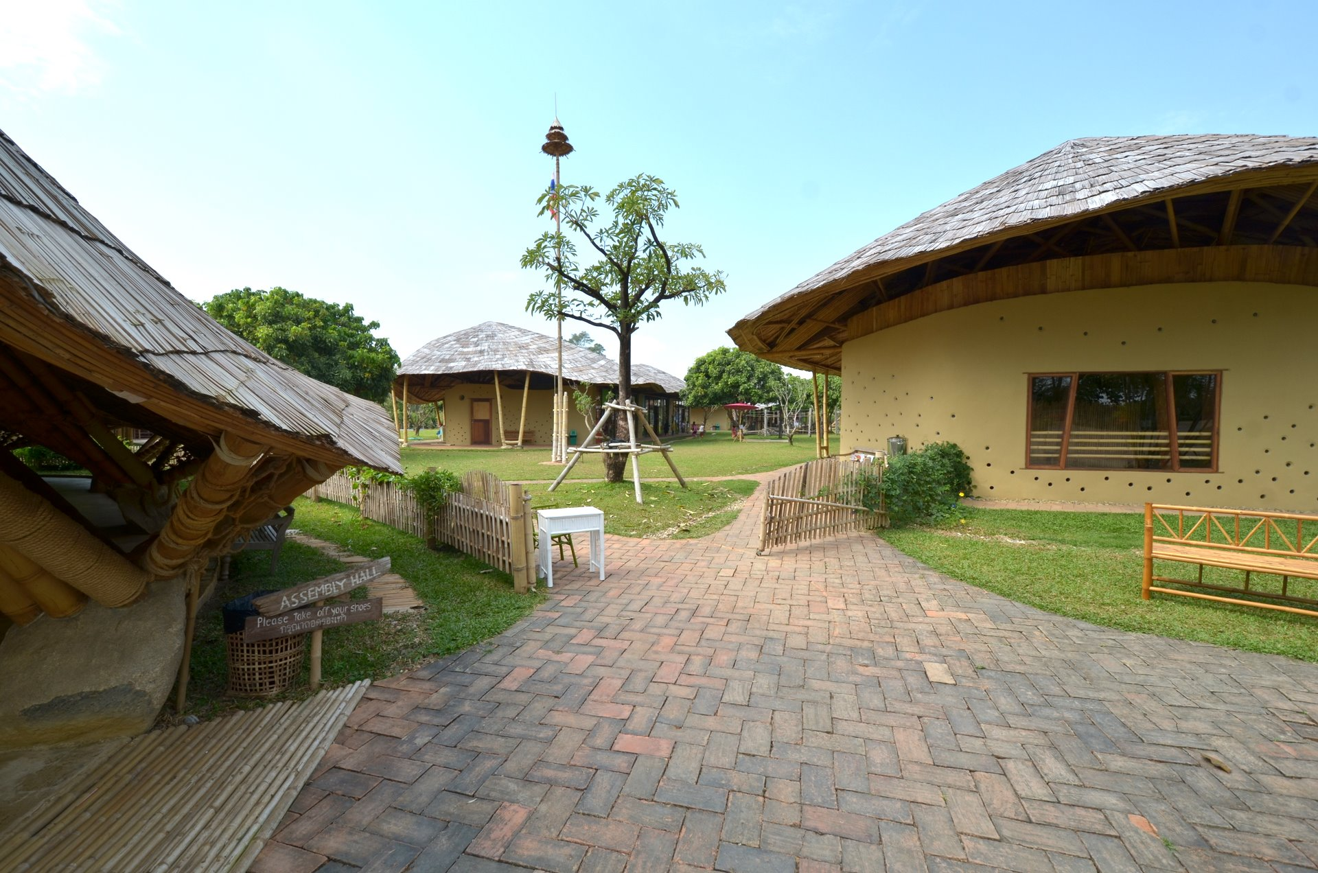 Panyaden School is a privately-owned bilingual primary school in the south of Chiang Mai (North Thailand). It was founded by Yodphet Sudsawad to deliver a holistic education that integrates Buddhist principles and green awareness with the International Primary Curriculum.